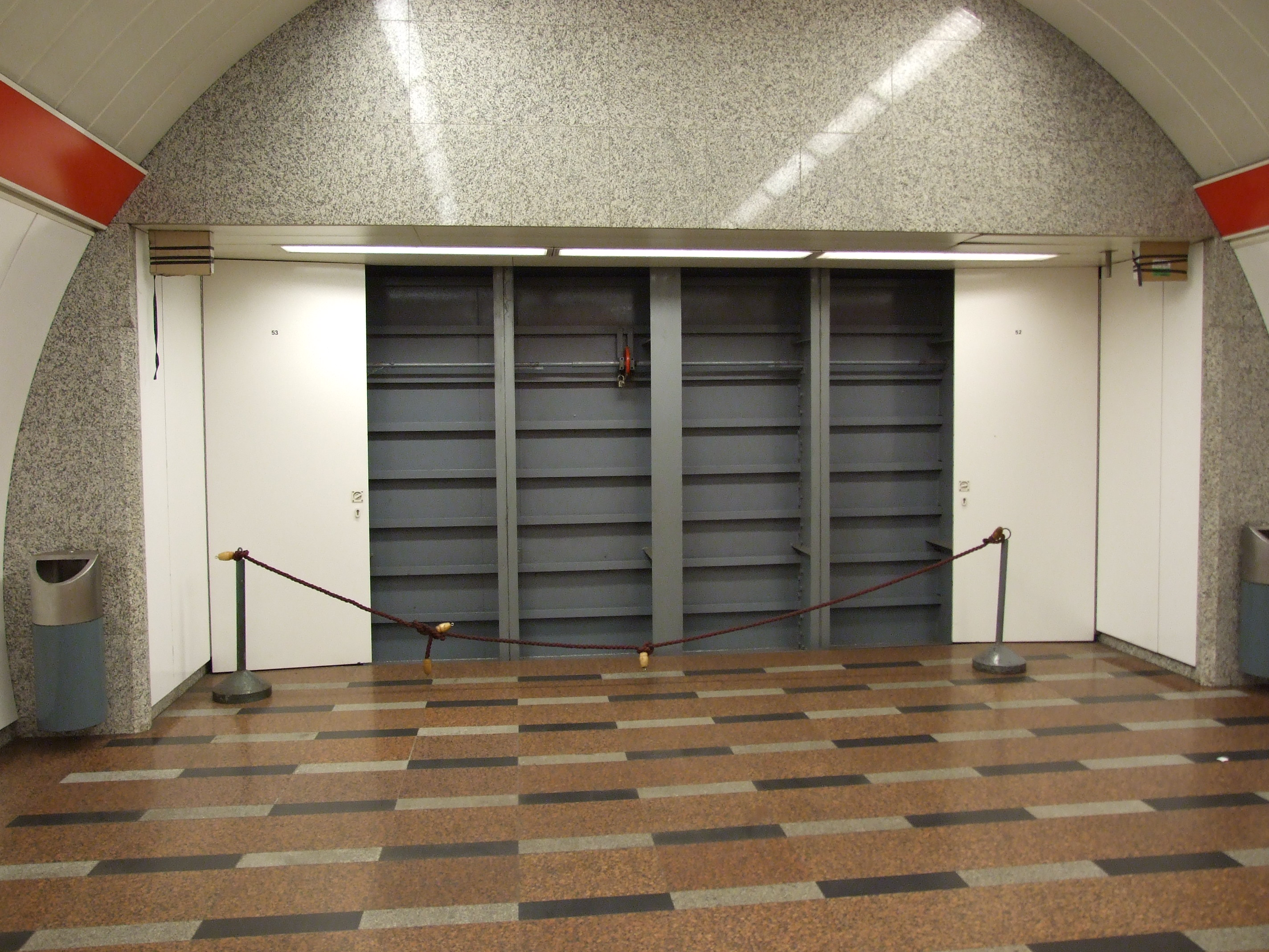 Future M2 and M4 transfer tunnel in Keleti Pályaudvar metro station, Budapest, HU